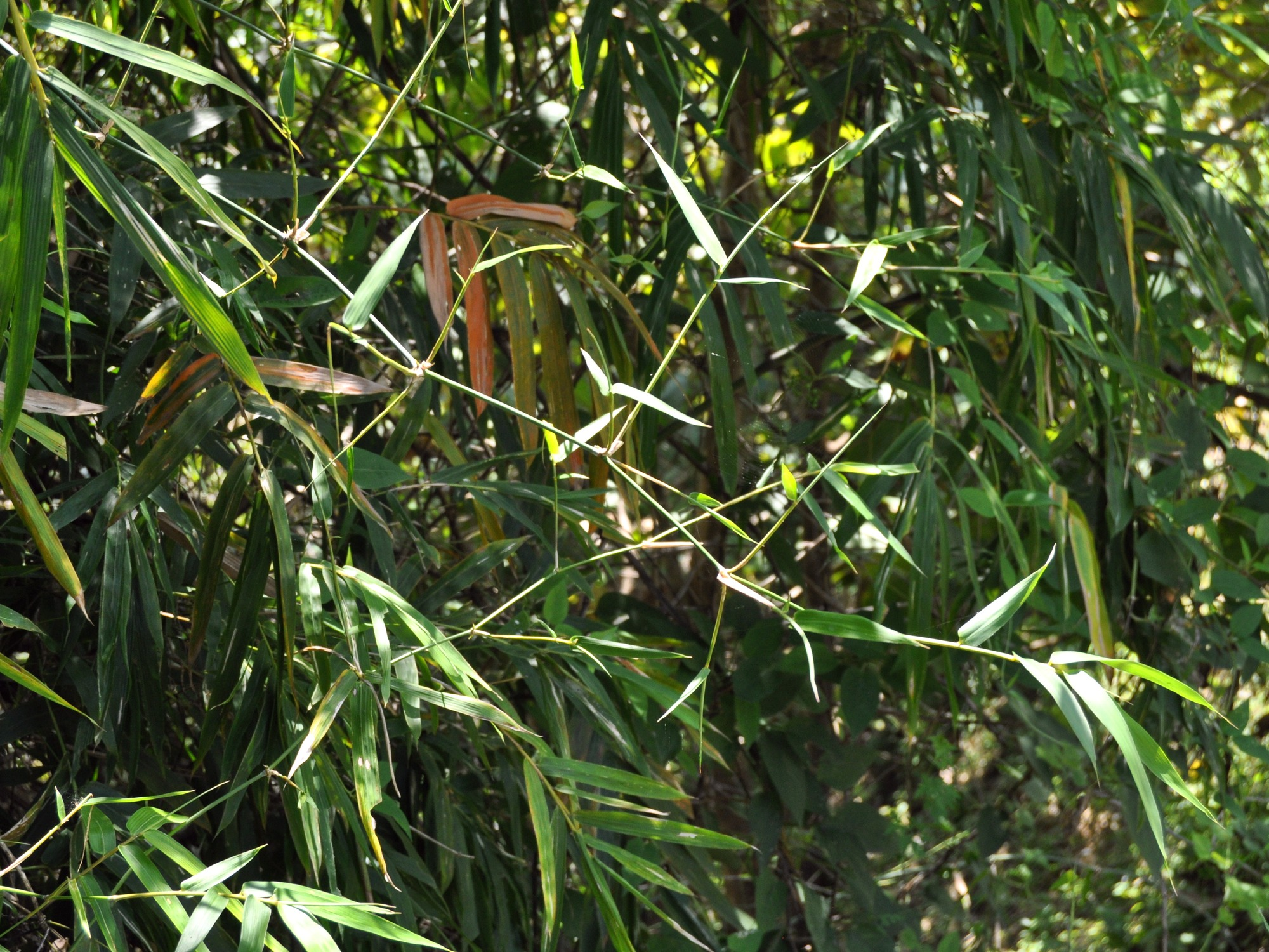 Thorny bamboo, Bambusa blumeana; leaves. From Ponorogo, East Java, Indonesia.